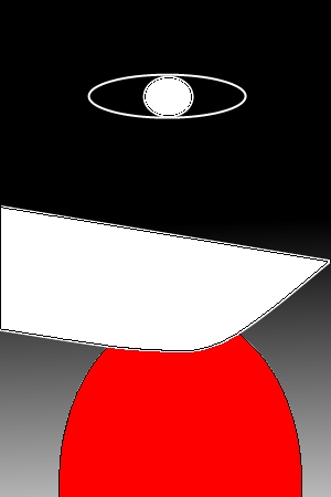 Handmaid under the Eye